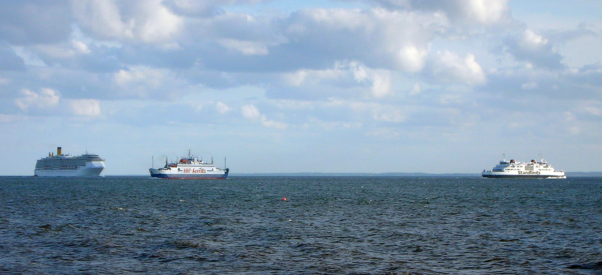 Traffic on Oresund, seen from Helsingborg